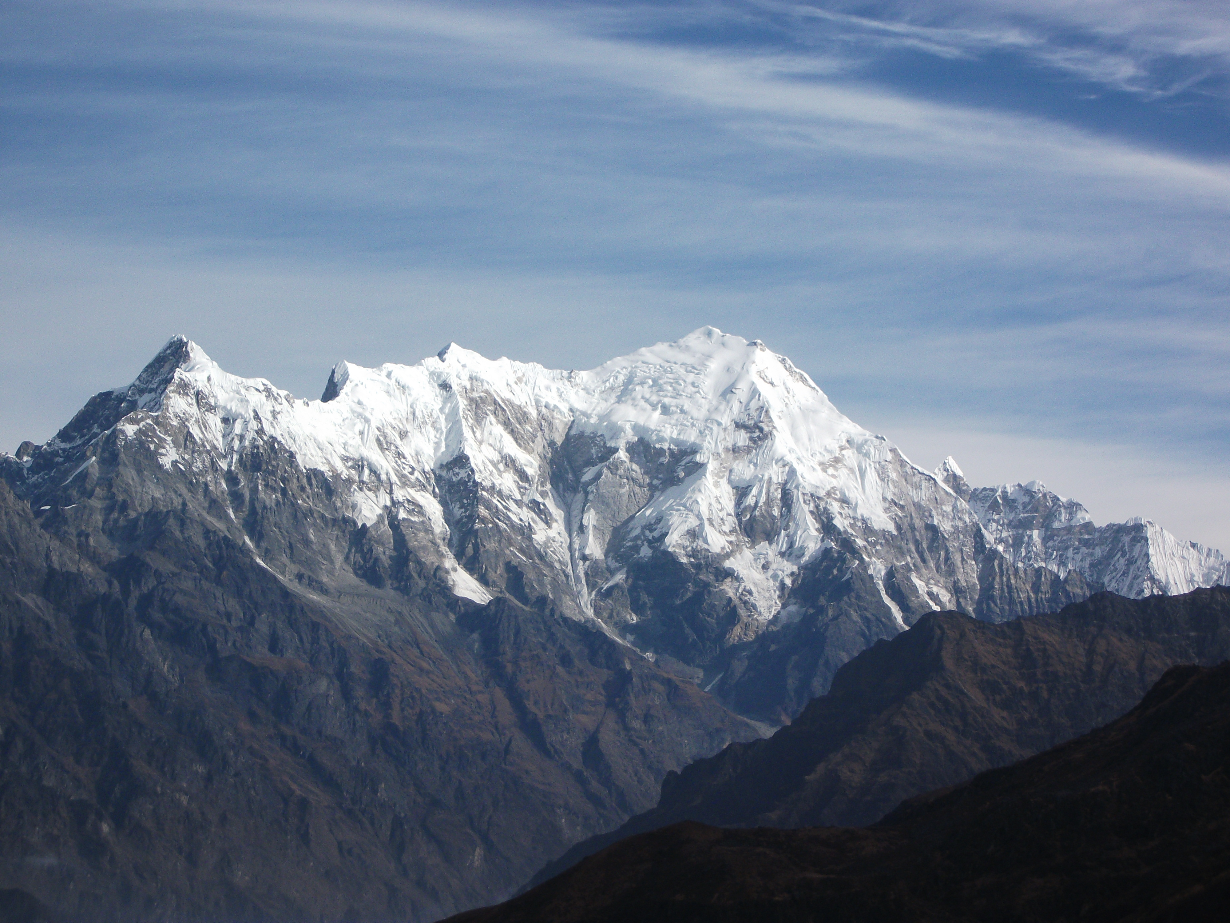 Langtang